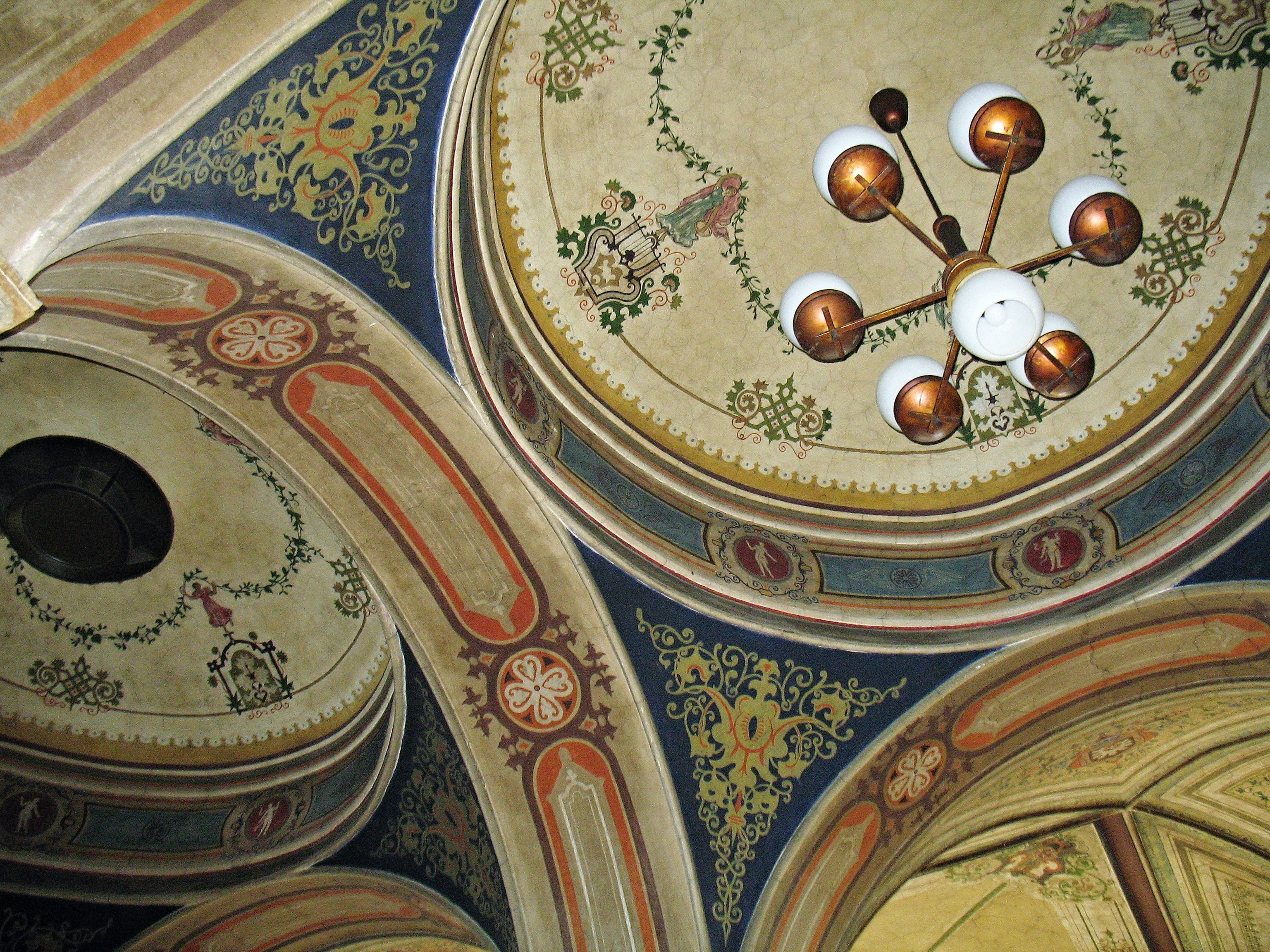 Train station Teplice v Čechách